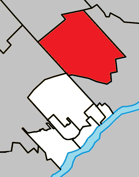 Location of Sainte-Anne-des-Plaines, Quebec within Thérèse-De Blainville Regional County Municipality.